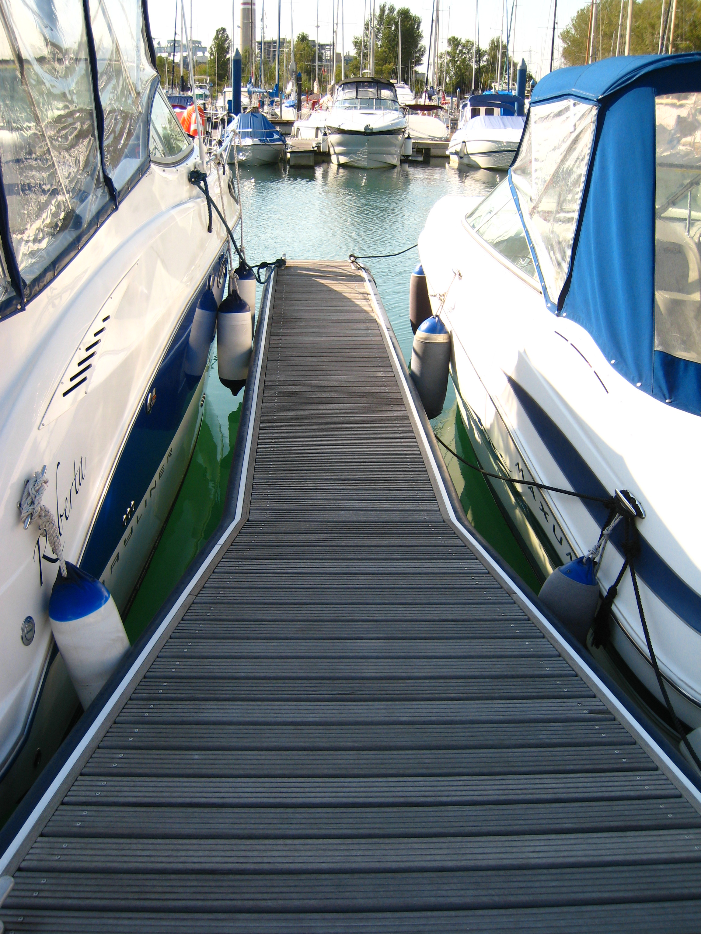 Fenders